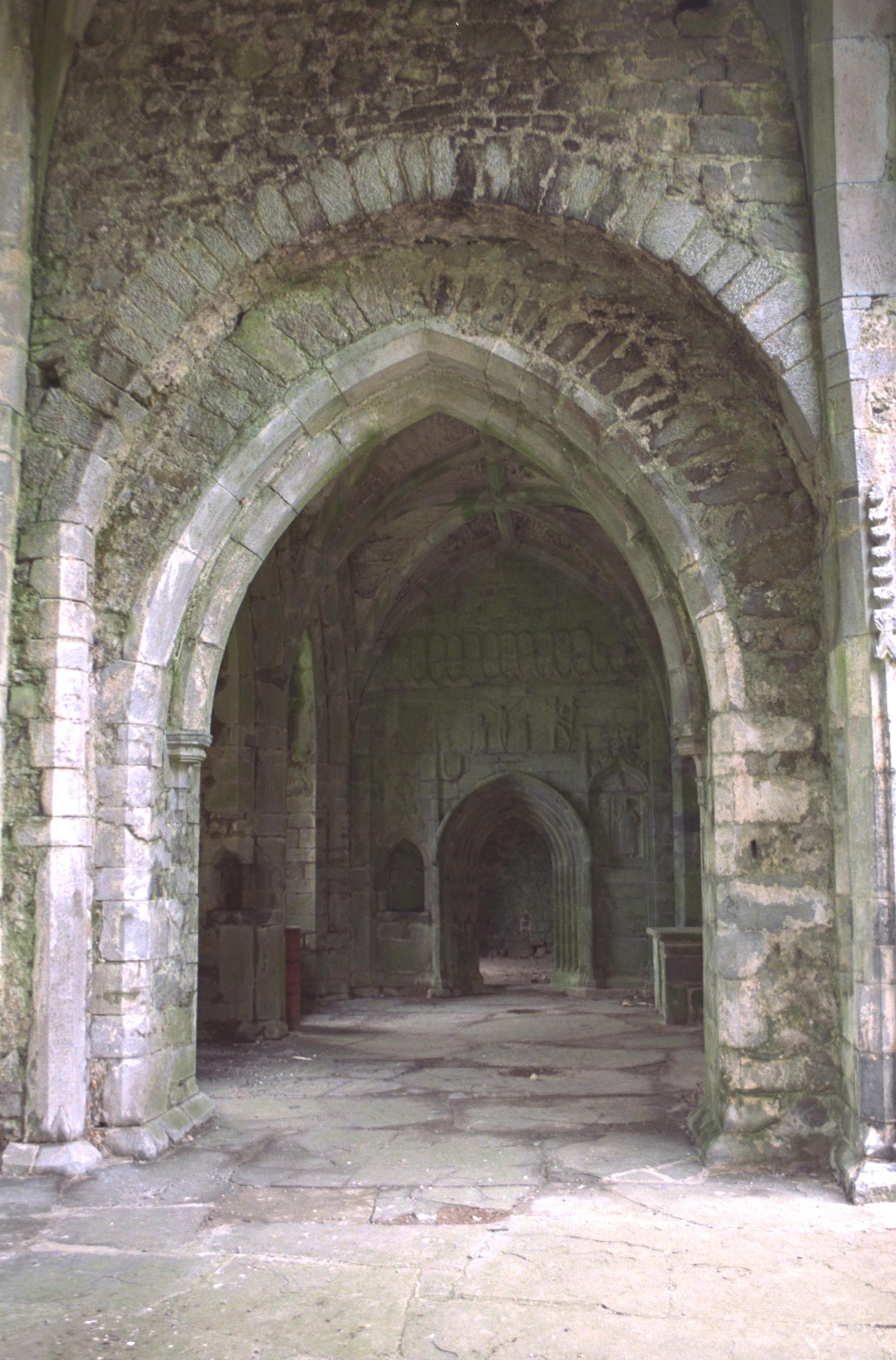 Kilcooly Abbey, County Tipperary, Ireland South Transept, as seen from the nave